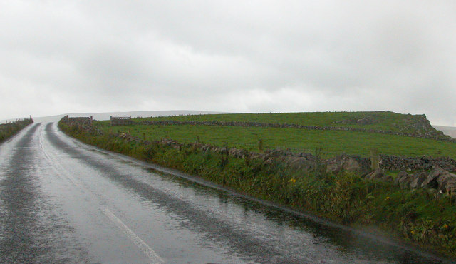 Batham Gate Roman road. Batham Gate is the Roman road from Buxton to the north-east. After climbing steeply up the hillside from Peak Dale the road descends gradually to the south of Peak Forest and on to Castleton. At the point in the photograph it is passing Laughman Tor.